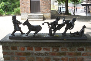 The sculpture "Ezelstaart" in the Belgian hamlet Ezaart in the community Mol.